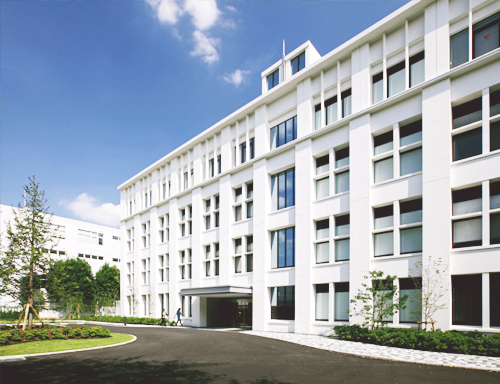 Yokohama_college_of_art_&_design